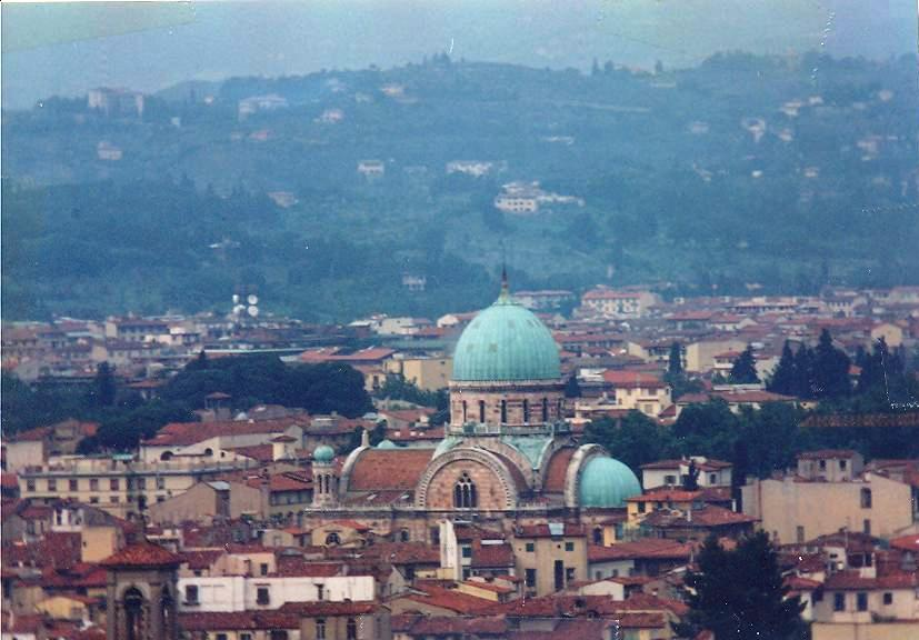 The Temple from Piazzale Michelanglo